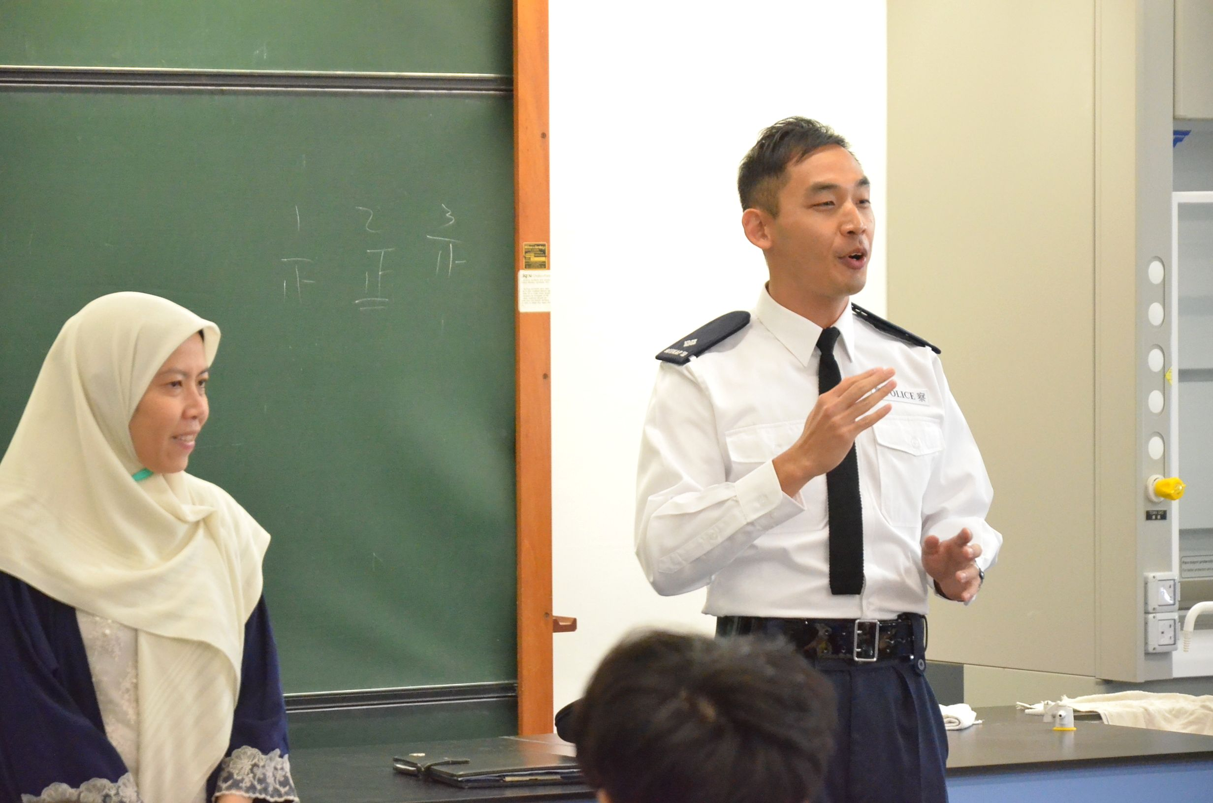 iktmc kc gave a talk